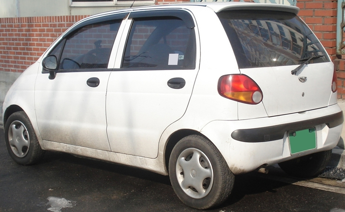 Daewoo Matiz